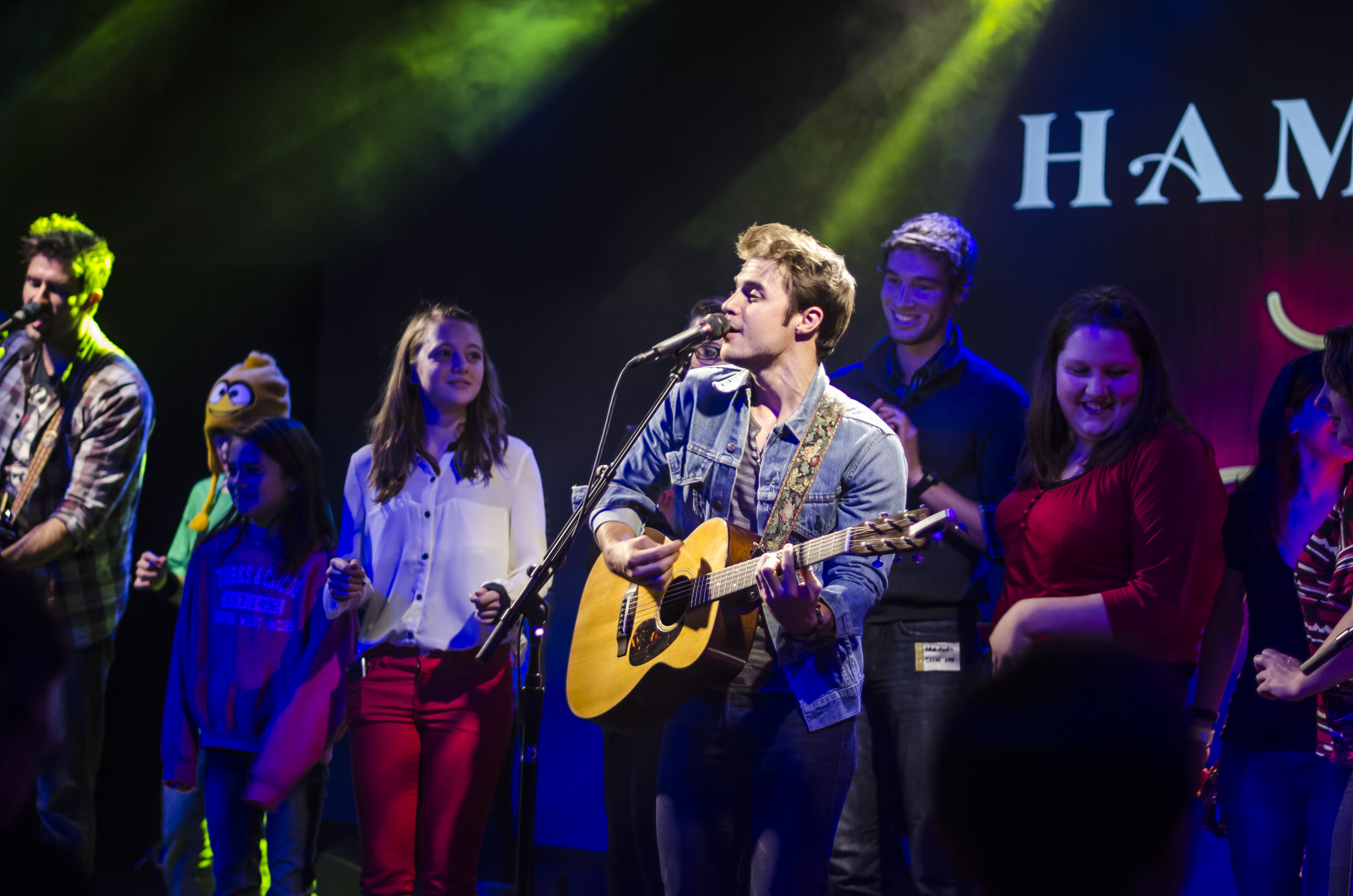 I'm not watermarking this sequence of photos, so if you were up on stage feel free to use the "Shut That Door" photos as you wish! :)